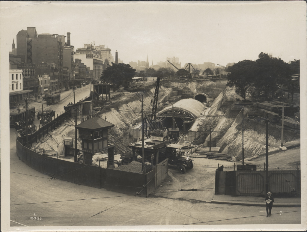 Format: Photographic print. Part Of: Powerhouse Museum Collection General information about the Powerhouse Museum Collection is available at Persistent URL: Acquisition credit line: Gift of Dorothy Stuckey, 1987